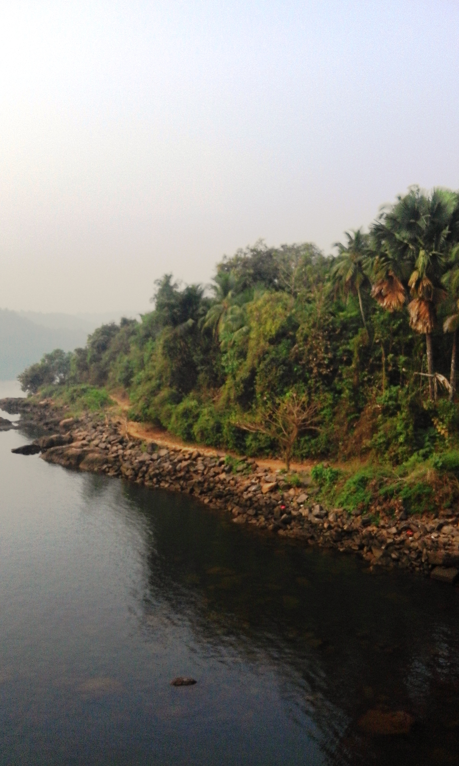 Kozhikode District, Kerala province, India.